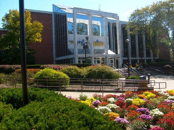 The Mountainlair is the Student Union building at West Virginia University